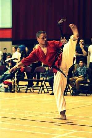 RedKimono